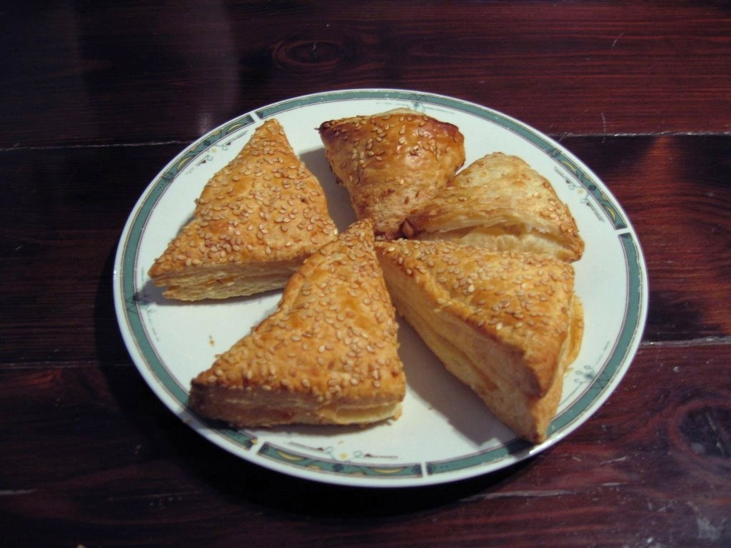 A Photograph of three small Cheese Bourekases and Two "Turkish" Potato-filled Bourekases from Israel.